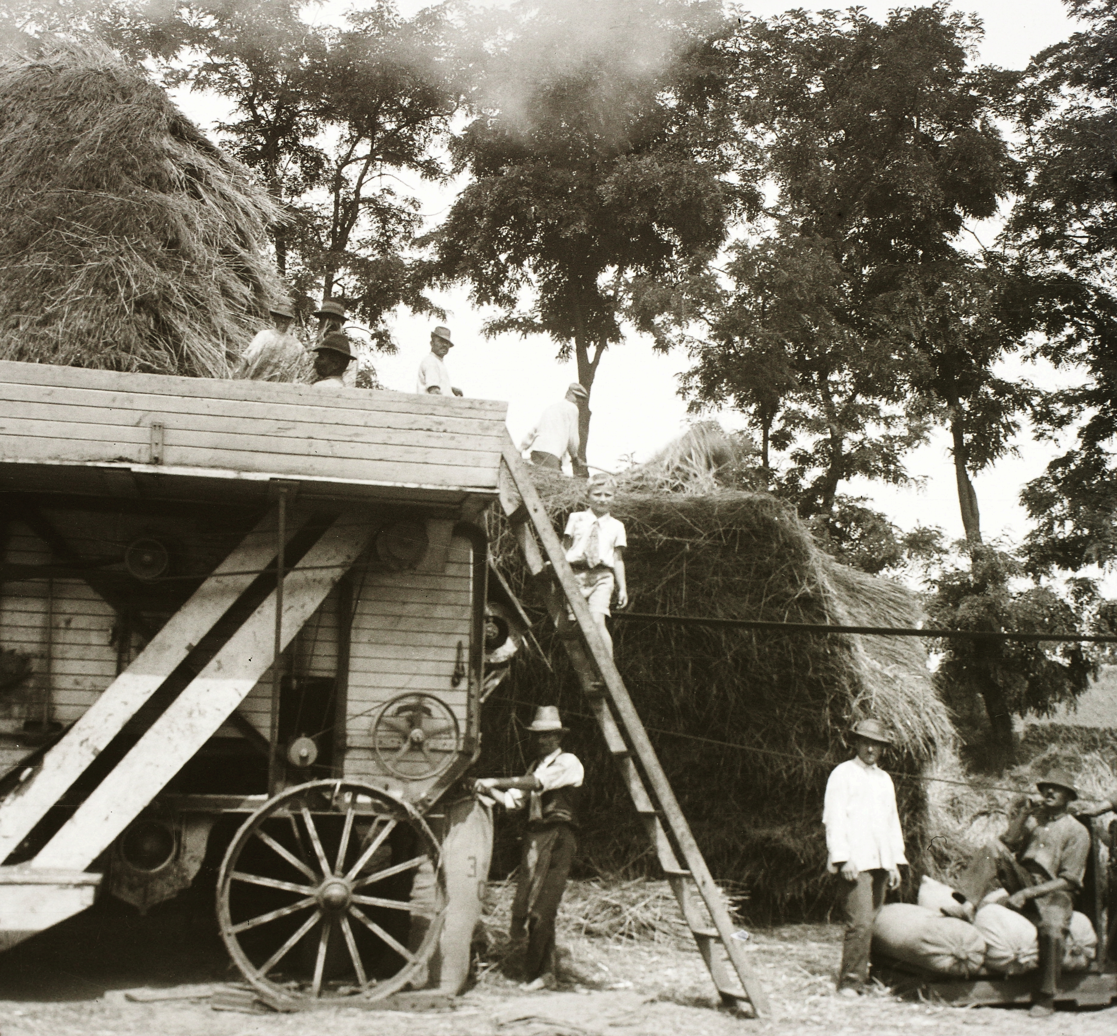 Location: Hungary, Dombiratos Tags: threshing machine, threshing, ladder, sack, genre painting, agriculture, hat